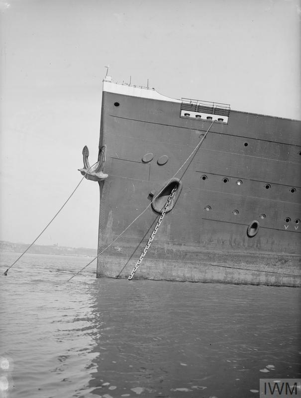 Salvaging HMS Caledonia, Formerly Ss Majestic From Firth of Forth. 3 May 1942, Bo'ness. the 56,000 Ton Liner Ss Majestic Was Raised From Deep Water in the Firth of Forth at the First Attempt. Eighteen Hundred Ports As Well As Hull Openings Had To Be Sealed by Divers Before She Could Be Pumped Dry. the Majestic Had Ended Her Service Afloat As the Training Ship HMS Caledonia. She Sank After a Destructive Fire in September 1939. She Provided Nearly 40,000 Tons of First Class Steel For the War Effort. View of the bow.